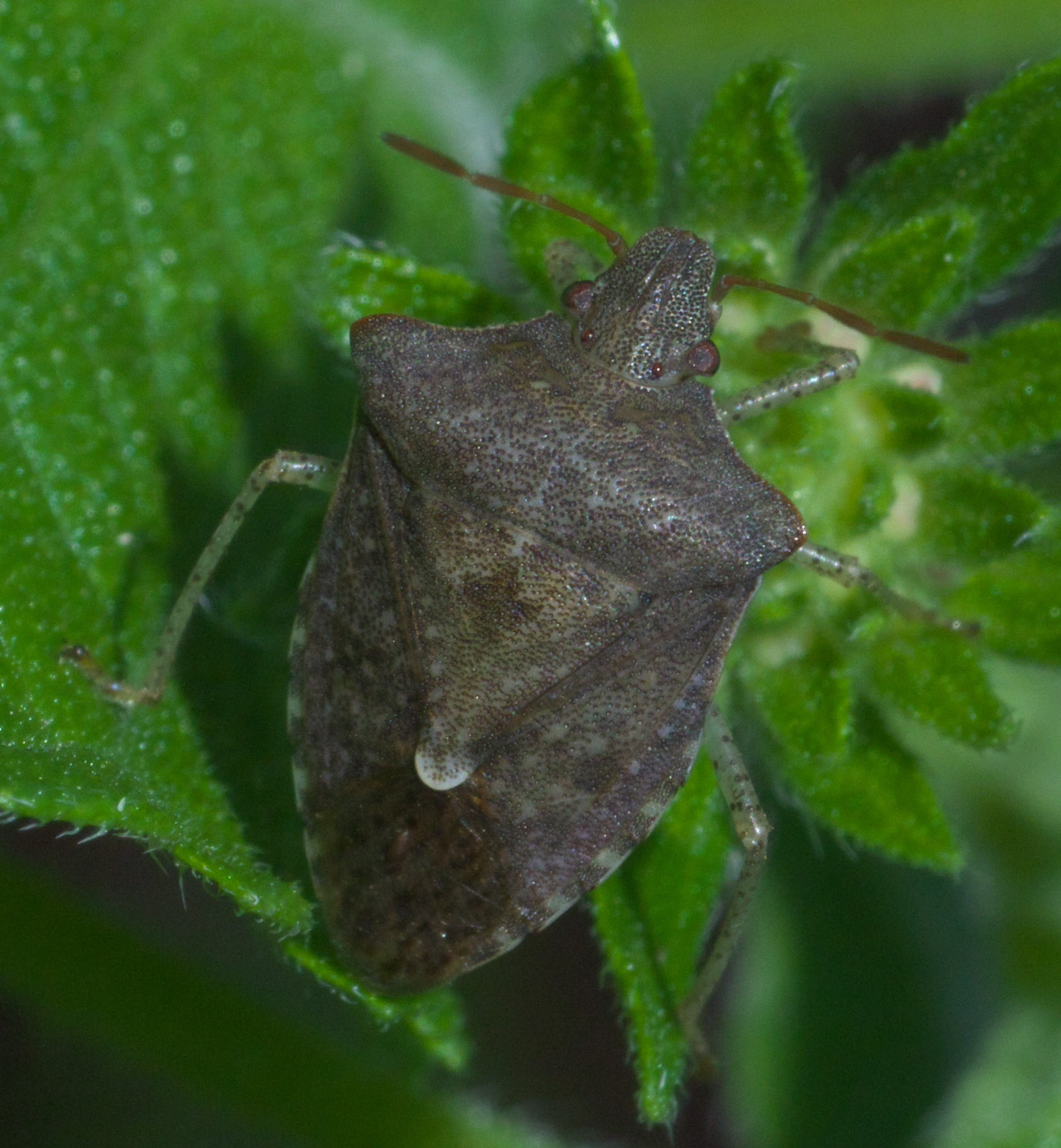 Euschistus tristigmus, Dusky Stink Bug, ID Confidence: 98